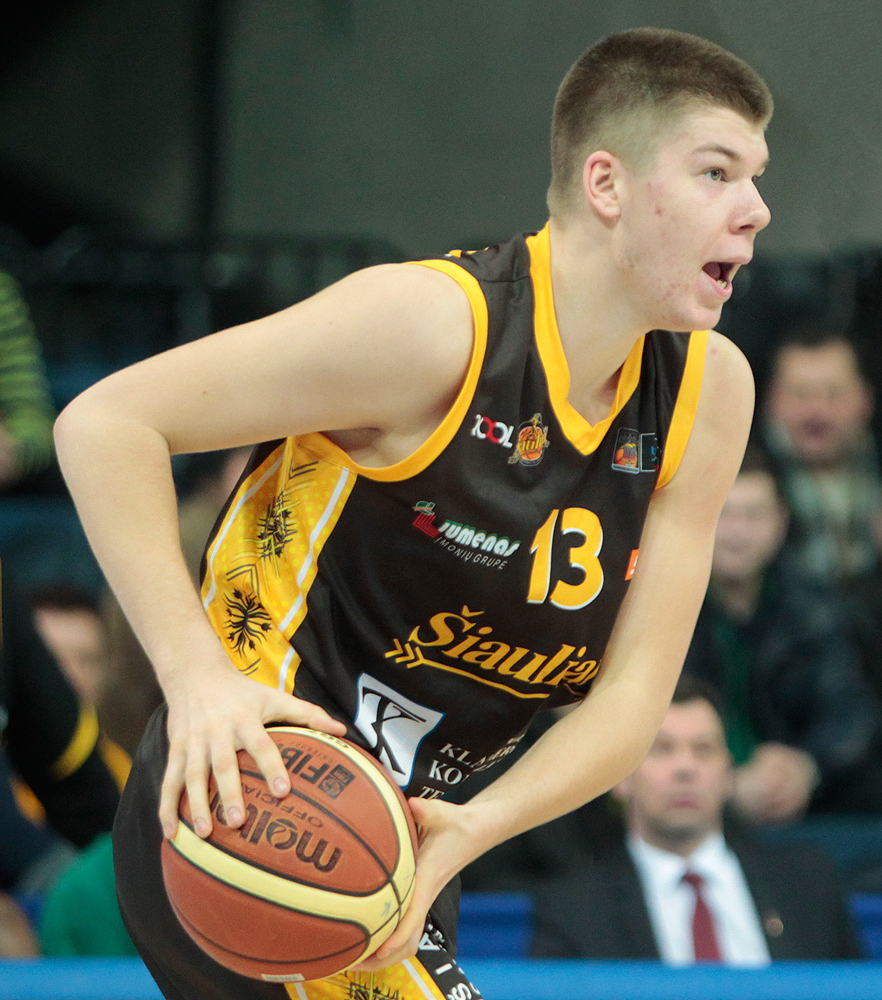 Basketball player Rokas Giedraitis